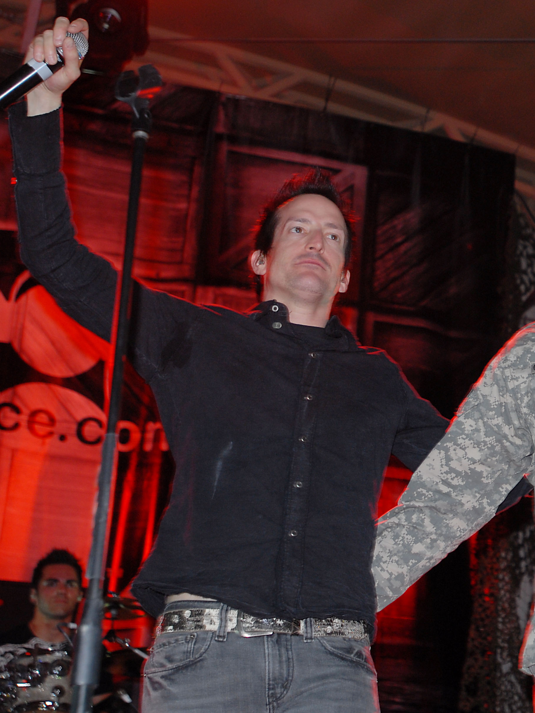 Richard Patrick, lead vocalist for the band Filter, and former band mate turned Army Reserve Sgt. Frank Cavanagh share the stage for a reunion song during the Operation MySpace concert at Camp Buehring, Kuwait, on March 10, 2008. Defense Dept. photos by Samantha L. Quigley